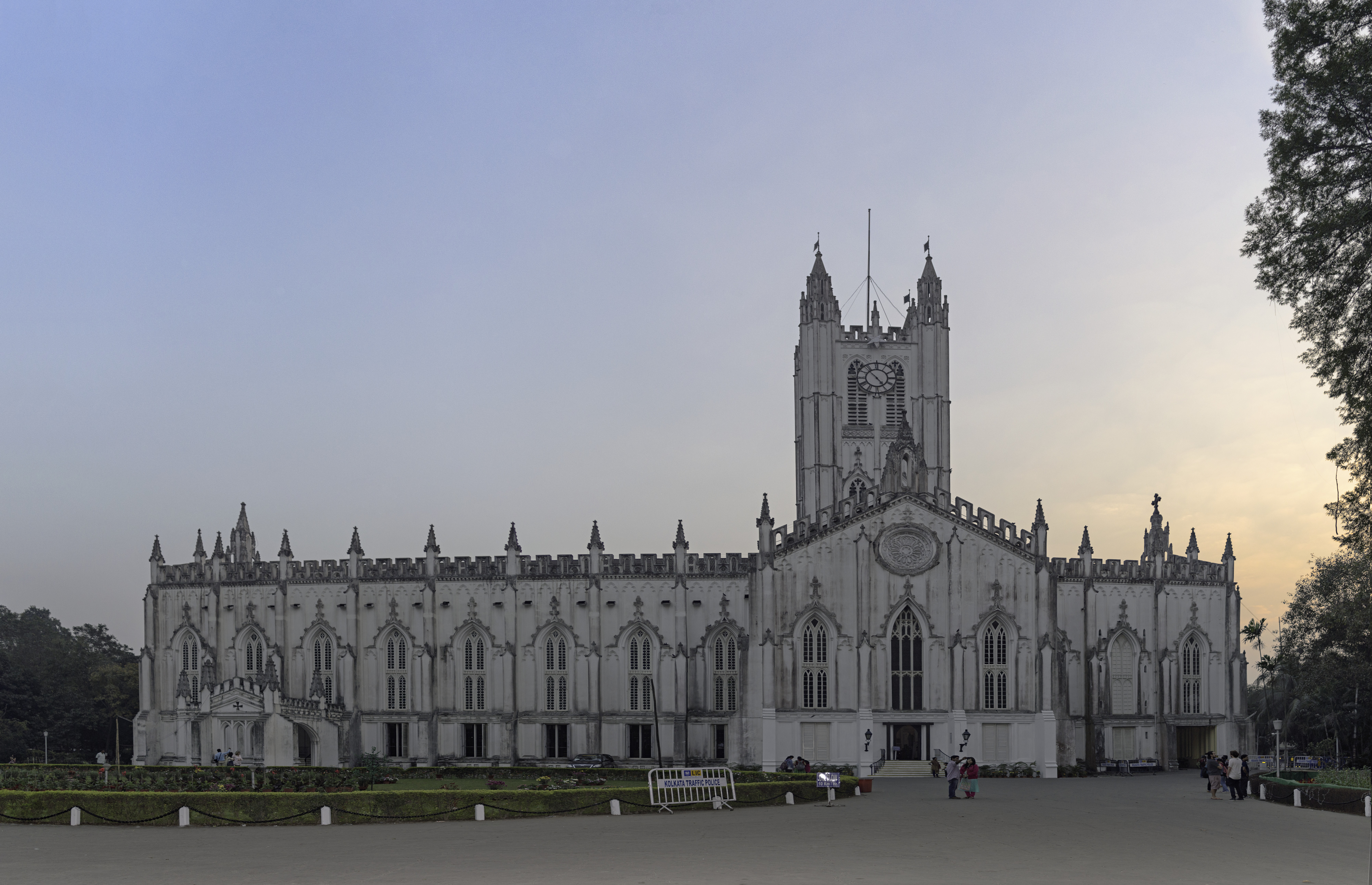 St. Paul's Cathedral is an CNI, Church of North India Cathedral of Anglican background in Kolkata, West Bengal, India, noted for its Gothic architecture. It is the seat of the Diocese of Calcutta. The cornerstone was laid in 1839; the building was completed in 1847. It is said to be the largest cathedral in Kolkata and the first Episcopal Church in Asia. It was also the first cathedral built in the overseas territory of the British Empire. The edifice stands on Cathedral Road on the "island of attractions" to provide for more space for the growing population of the European community in Calcutta in the 1800s.